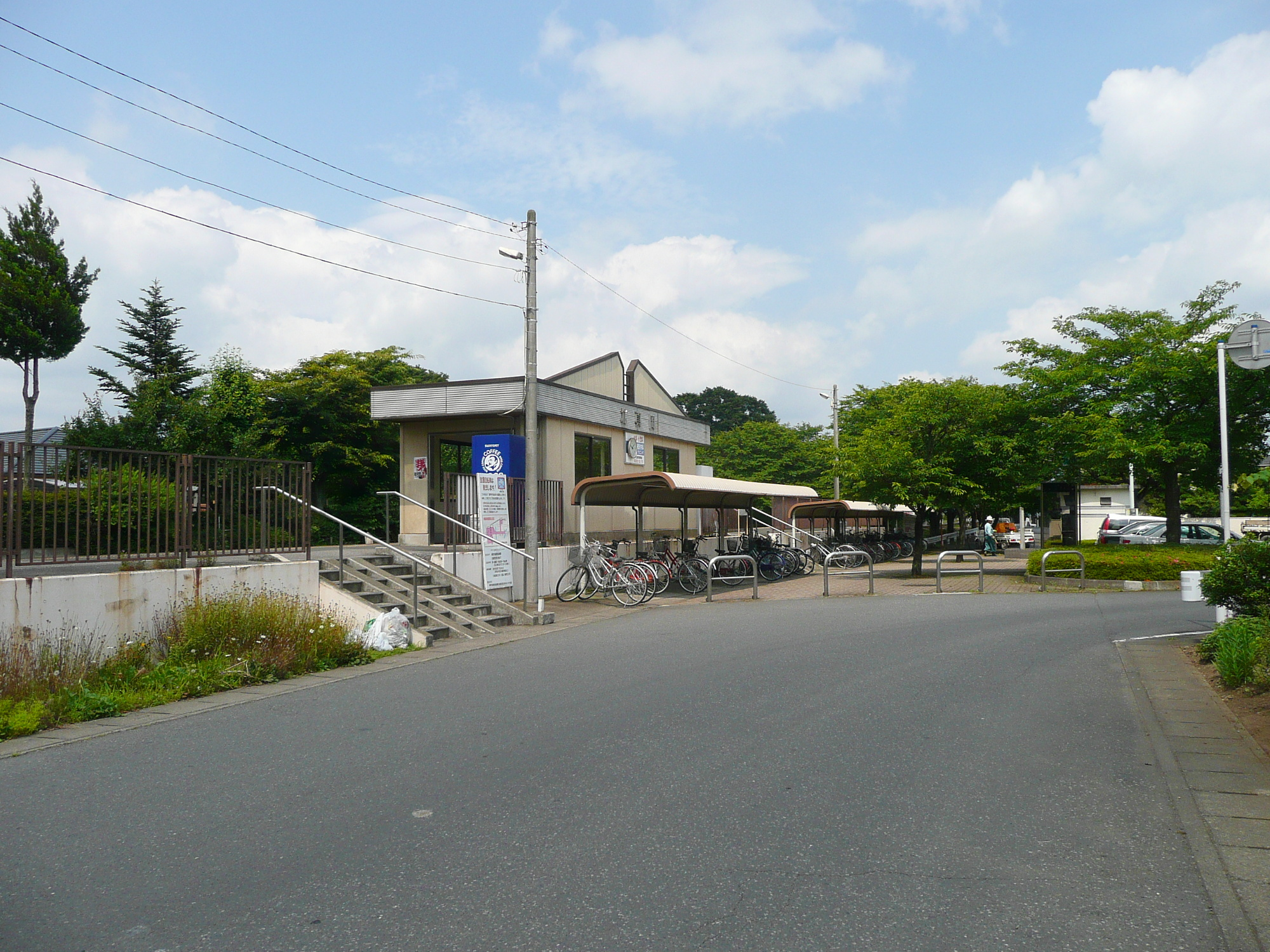 Kita Moka Station,Moka Railway.